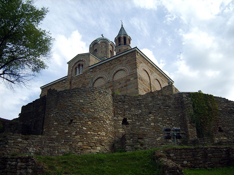 Made by User:Kandy from the BG Wikipedia